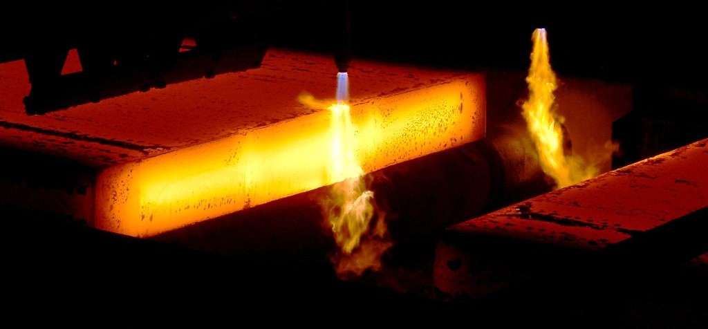 Oxygen cutting, at the exit of a steel slab continuous casting, to have a steel slab.